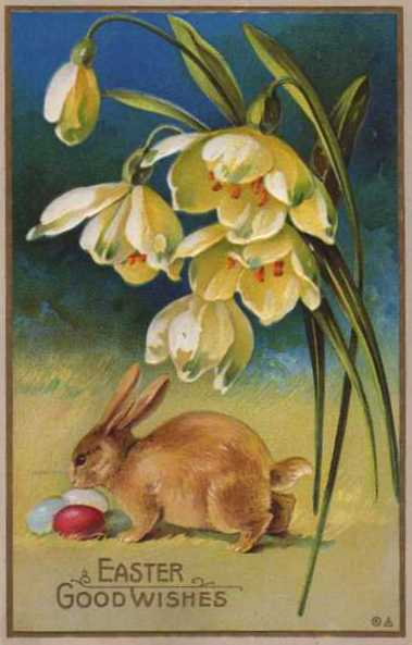 Easter postcard circa early 20th century